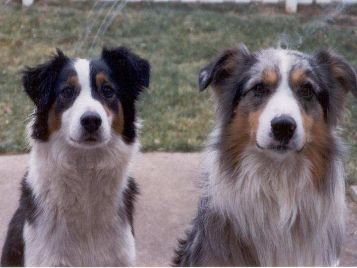 Australian Shepherd